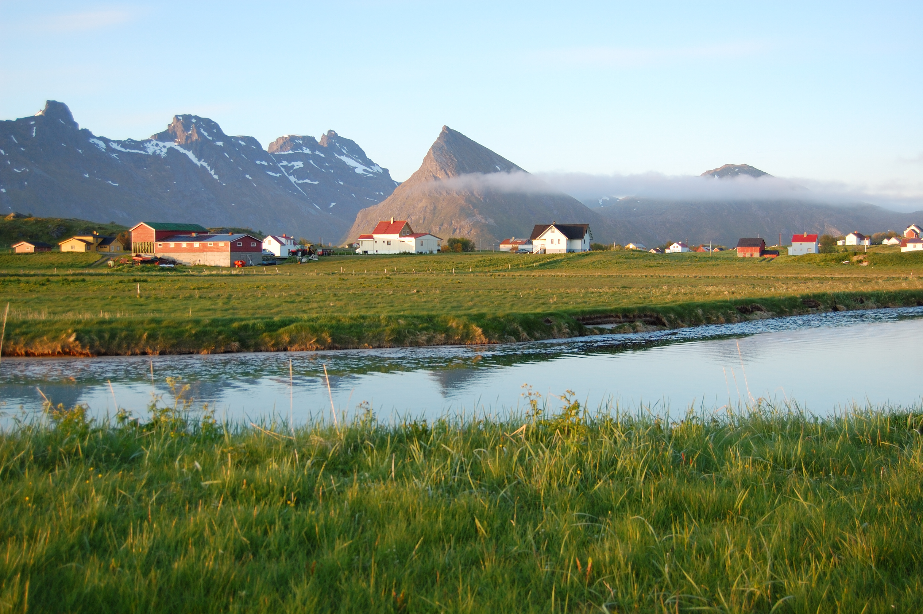 The village of Fredvang in Lofoten, Norway.